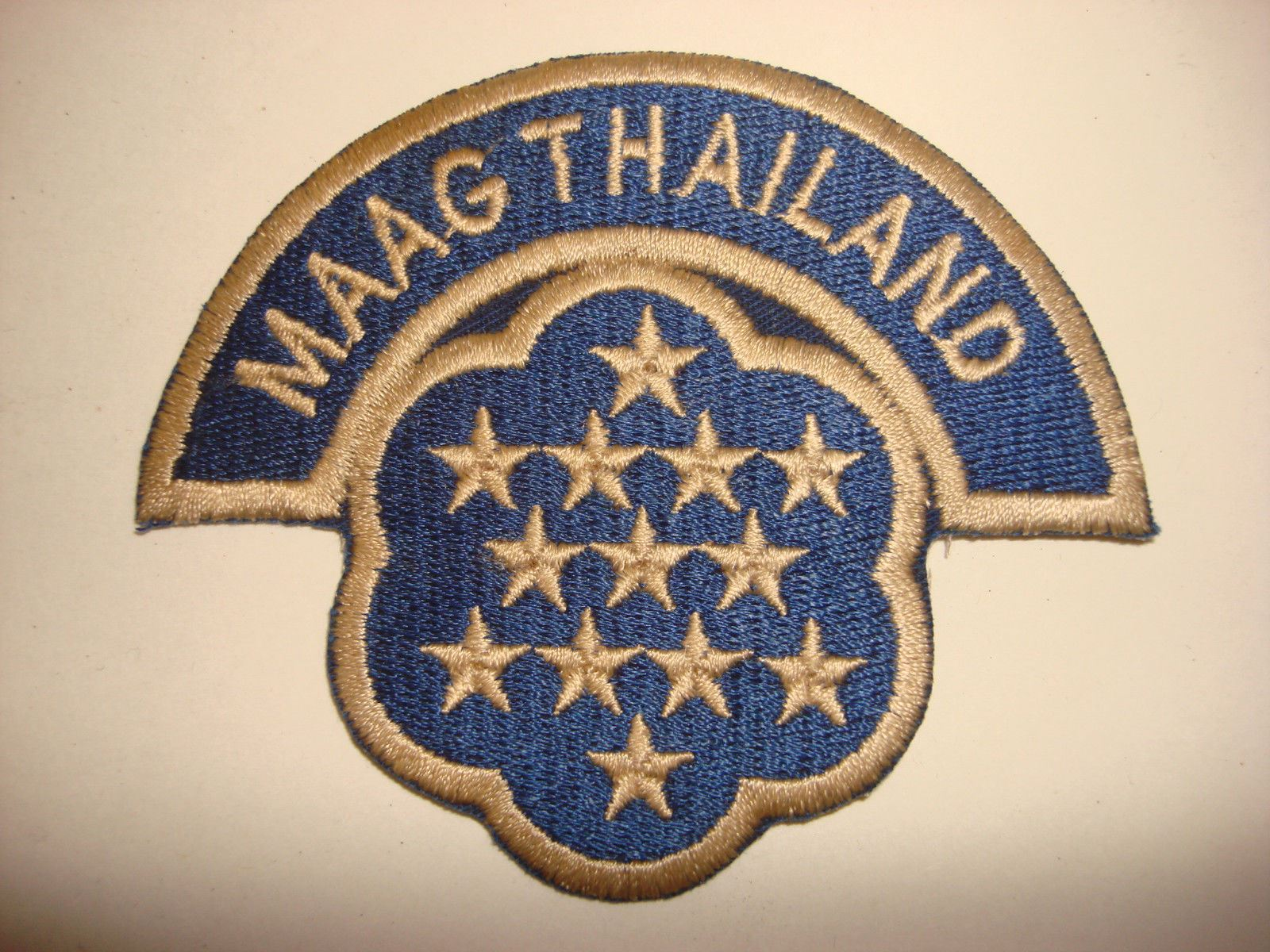 This is a US Military Service badge for the US Military Advisory and Assistance Group in Thailand